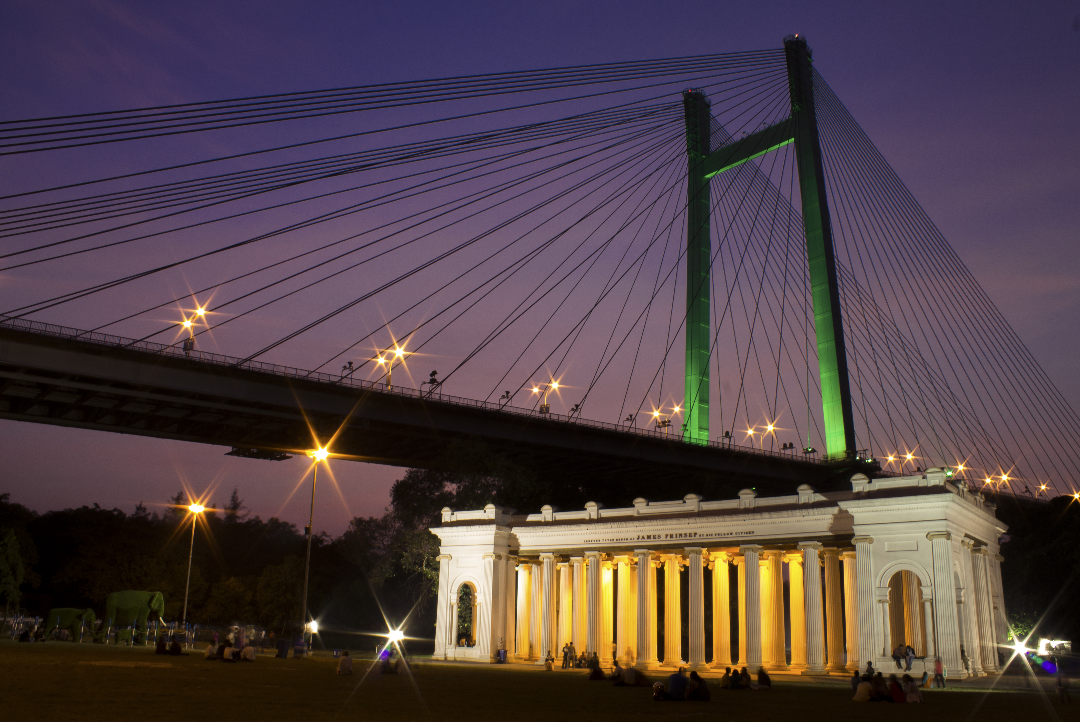 I have clicked this pic on 6th Nov.2014 by using a tripod, the trick is that I have done a long shutter